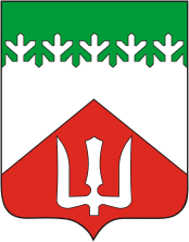 Volkhov rayon (Leningrad oblast), coat of arms